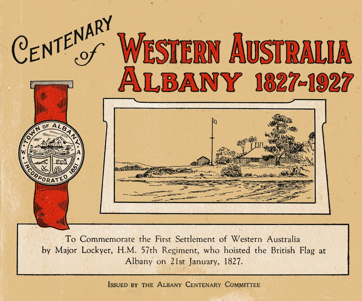 Albany Centenary Book 1927 - containing some photographs and material from the earlier book Alluring Albany (1912)